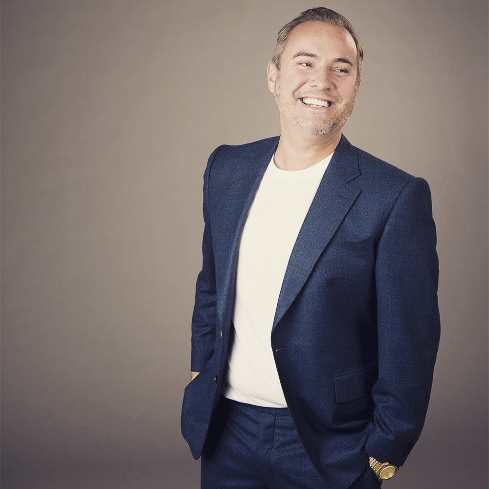 summer photoshoot nick laughing wearing a green chester barrie suit